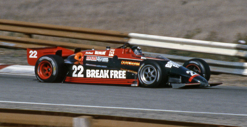 Dick Simon drove his March 84C to a 14th-place finish at the 1984 Laguna Seca CART IndyCar race, eight laps down to winner Bobby Rahal.